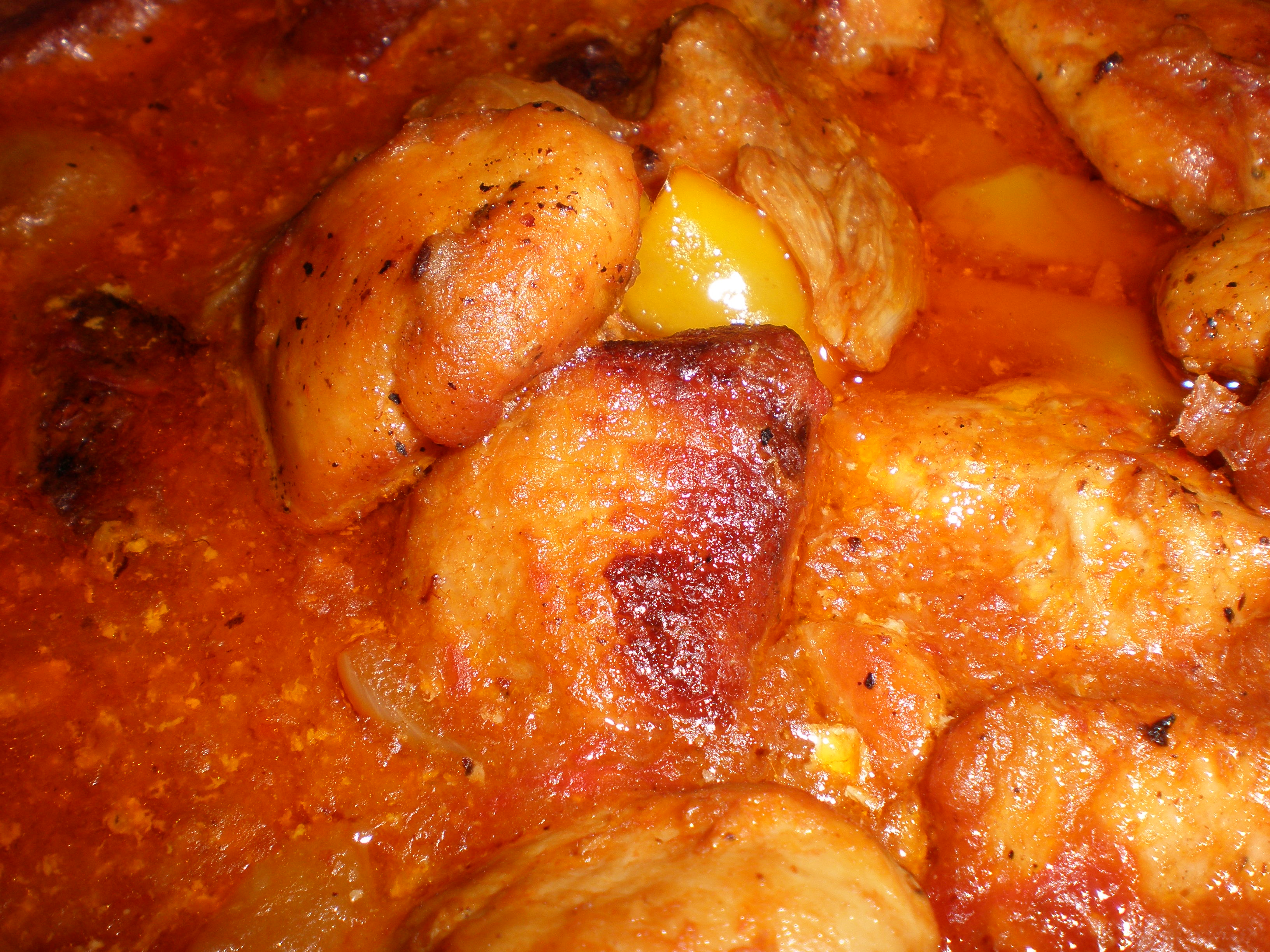 Beef kaldereta with potatoes